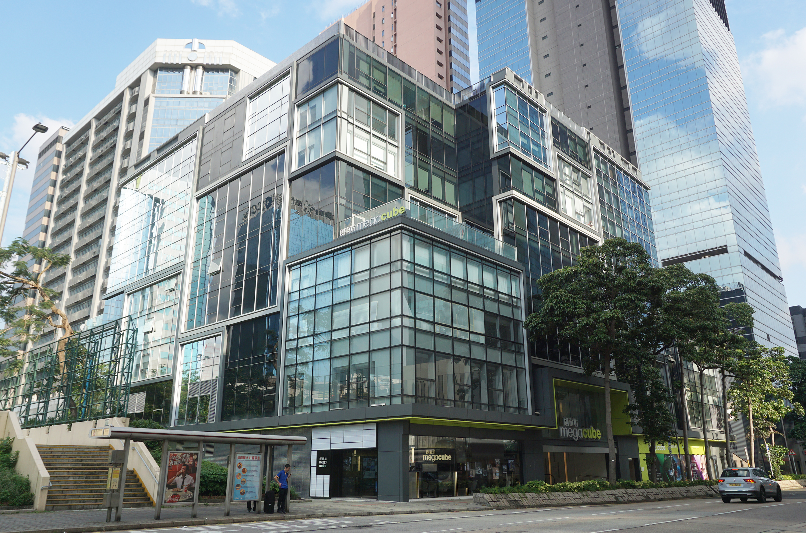 Megacube in Kowloon Bay, Hong Kong, lndustrial building revitalisation measures.